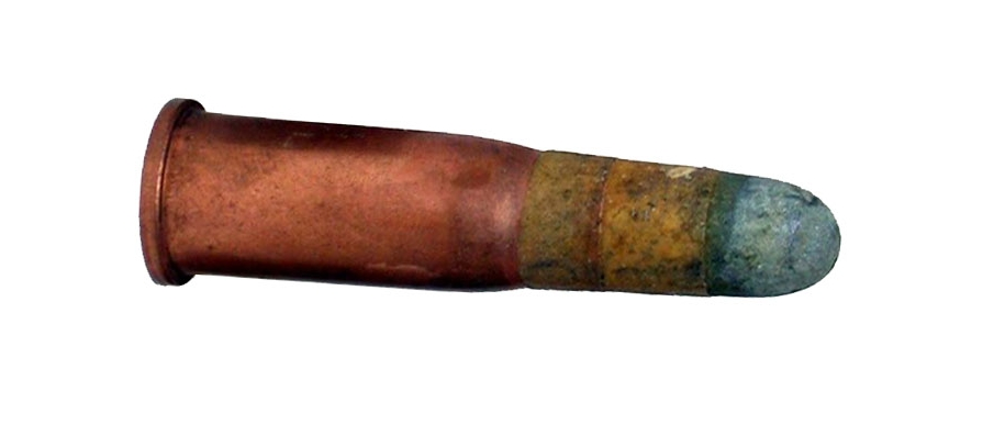 Vetterli 10,4 cartridge (.41 Swiss)